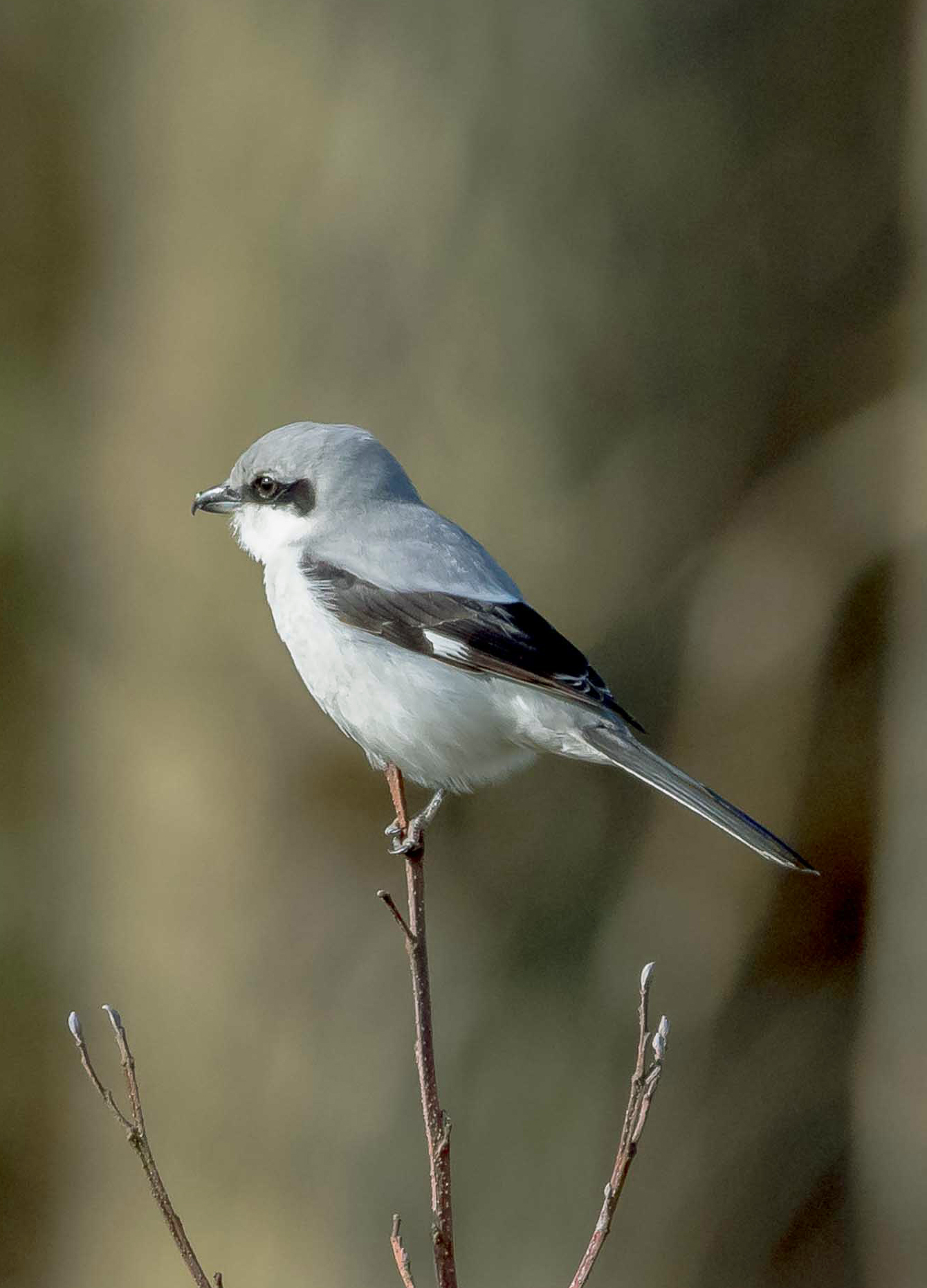 Great Grey Shrike Lanius excubitor excubitor, Chilham, Kent